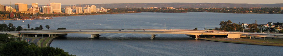 The Narrows Bridge in Perth, Western Australia, viewed from the west.